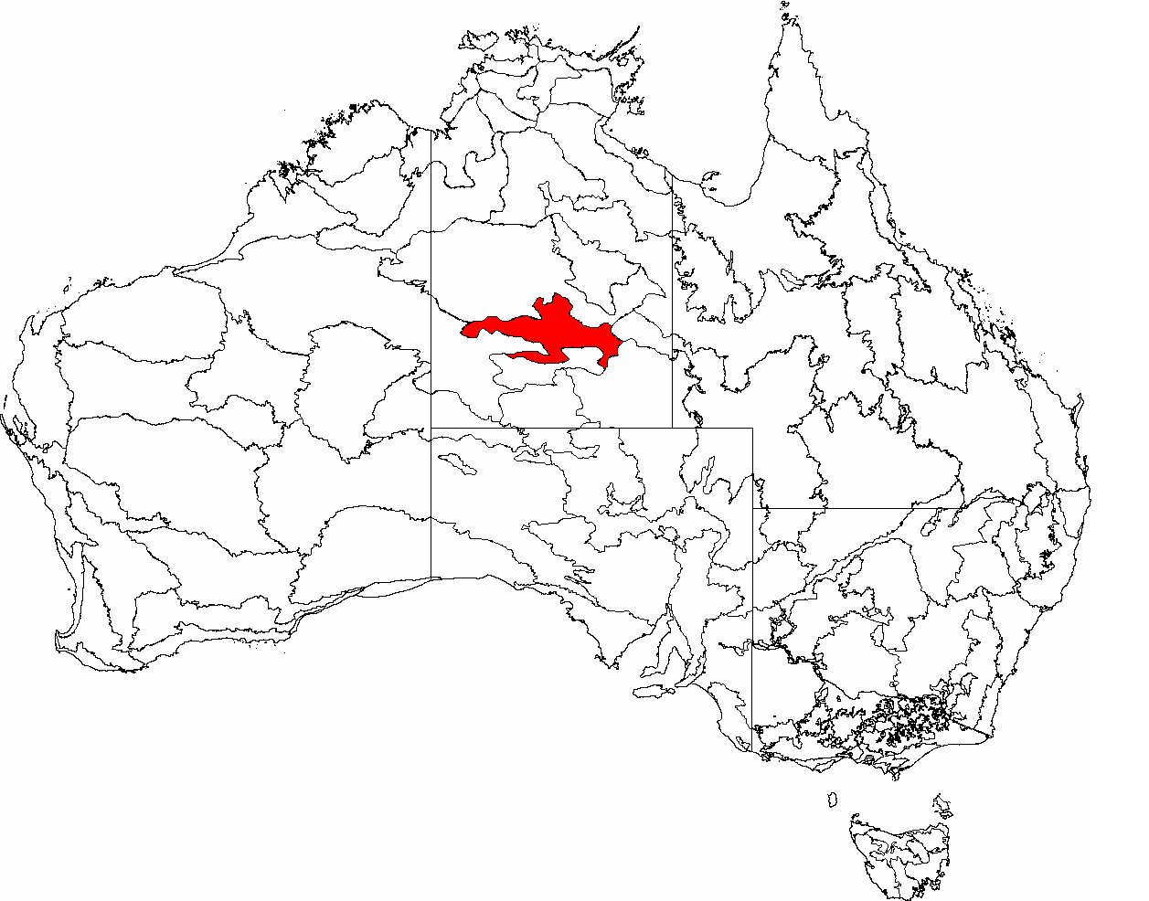 This is a map of the Interim Biogeographic Regionalisation of Australia (IBRA), with state boundaries overlaid. The Burt Plain region is shown in red.